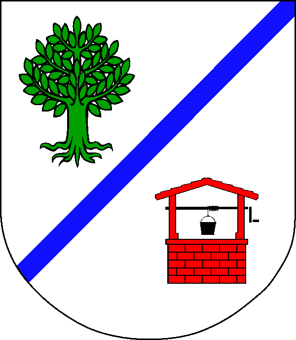 Coat of arms of the municipality Bornholt in Schleswig-Holstein, Germany.